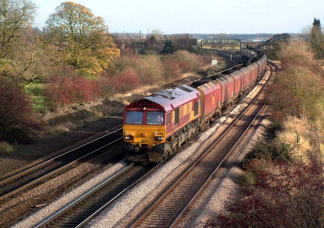 Imported Coal from Immingham at Melton Ross. Low winter sun highlights 66030 on an Imported coal train.